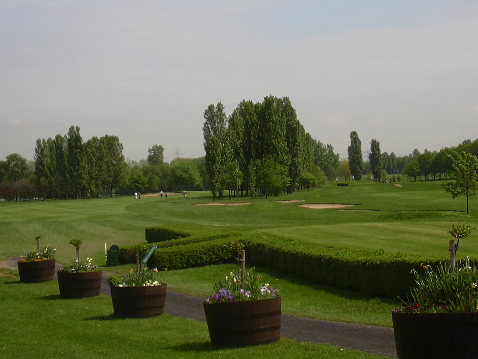 1st Fairway (left, going out) and 9th (right, coming in), GC Main-Taunus, Wiesbaden-Delkenheim, Germany